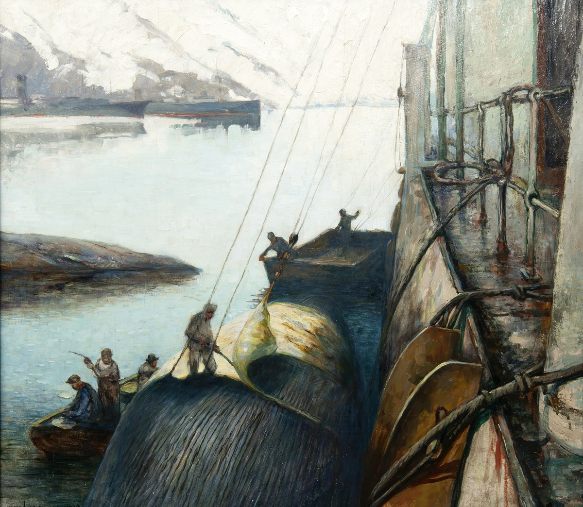 Norwegian: Flensing av blåhval, Whalers Bay, Deception Islandtitle QS:P1476,no:"Flensing av blåhval, Whalers Bay, Deception Island" label QS:Lno,"Flensing av blåhval, Whalers Bay, Deception Island"